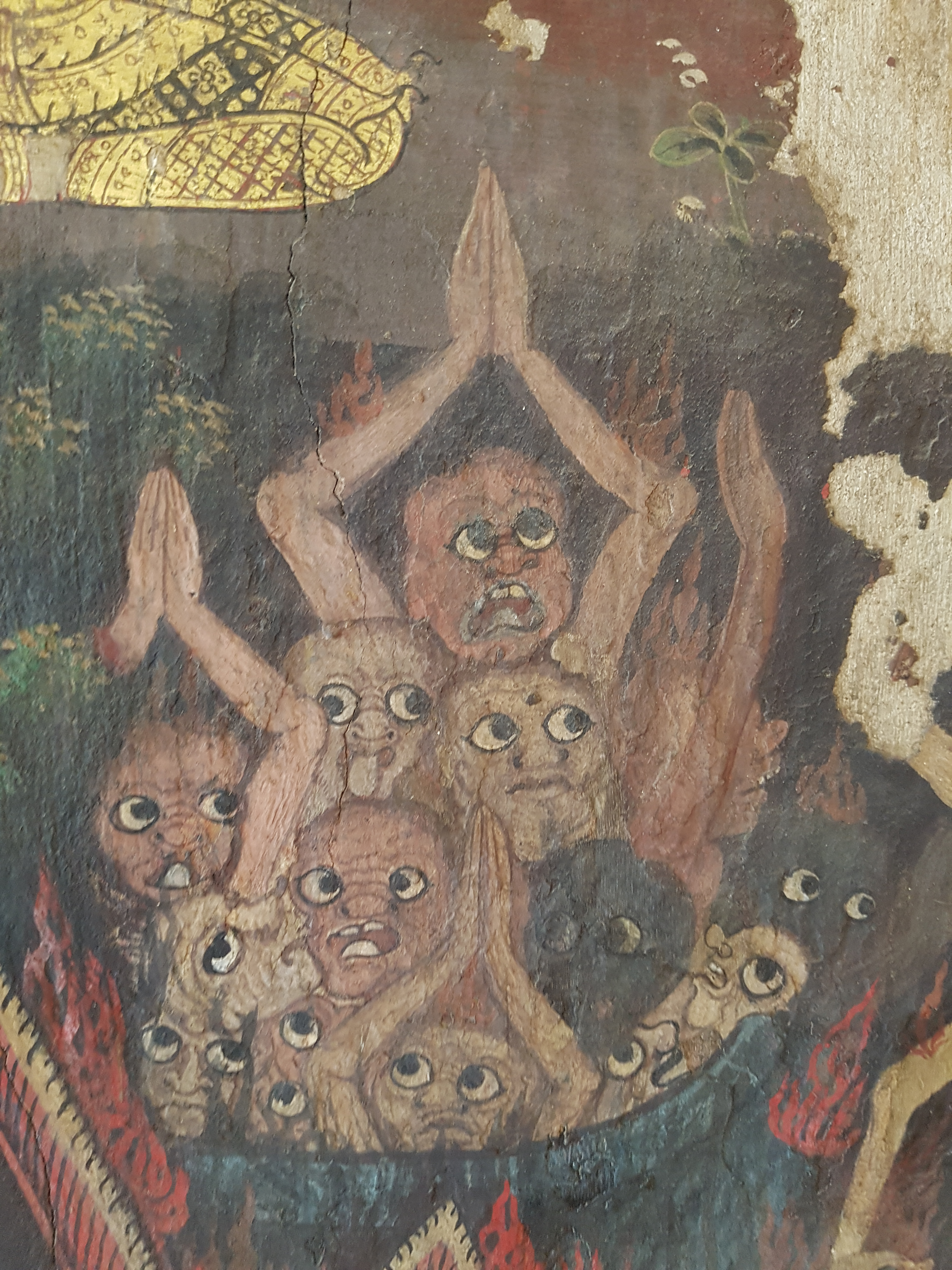 Phutthaisawan Hall, Bangkok National Museum, Bangkok, Thailand.